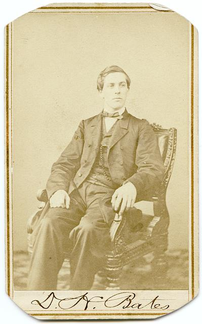 Photograph shows portrait of David Homer Bates, an original operator of the United States Military Telegraph Corps.